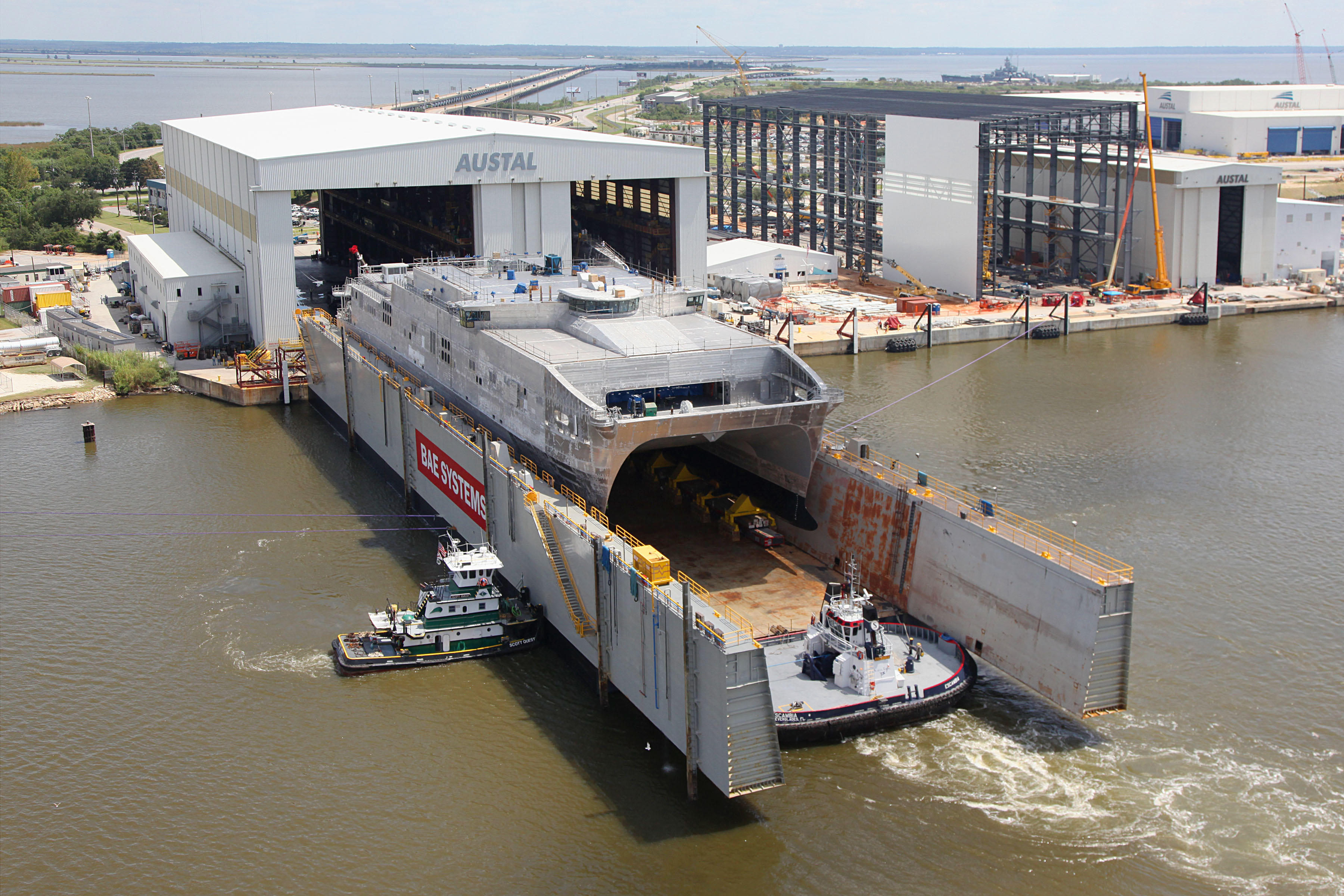 MOBILE, Ala. (Sept. 8, 2011) The Military Sealift Command joint high speed vessel USNS Spearhead (JHSV 1), the first of 10 Navy joint high-speed vessels designed for rapid intra-theater transport of troops and military equipment, prepares for its Sept. 17 christening ceremony at Austal USA in Mobile, Ala. The 338-foot-long aluminum catamarans are designed to be fast, flexible and maneuverable even in shallow waters, making them ideal for transporting troops and equipment quickly within a theater of operations. (U.S. Navy photo Courtesy Austal USA/Released)